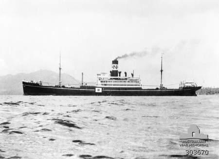 SS Nagoya Maru : Japanese passenger cargo ship launched in 1932. 6071grt. SS Johor Maru is same class.